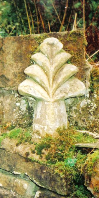 A finial from the old Chapelton House, Stewarton, Ayrshire.